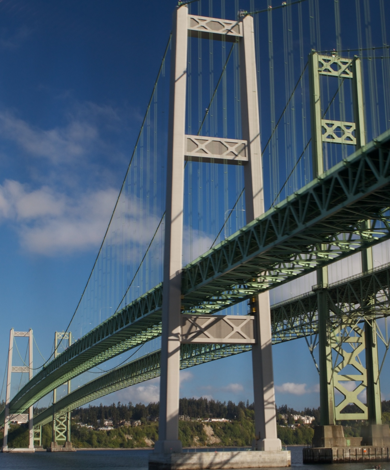 The Tacoma Narrows Bridge at Tacoma in United-States